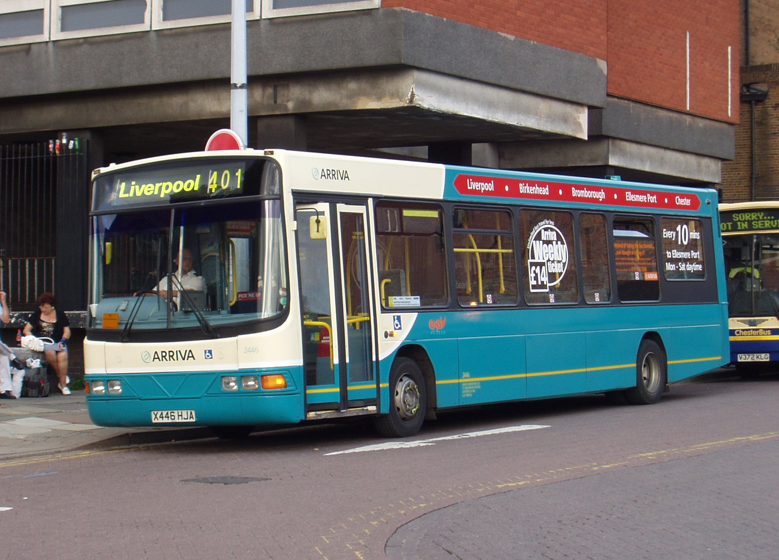 Arriva North West and Wales DAF SB120 CS with Wright Cadet bodywork.